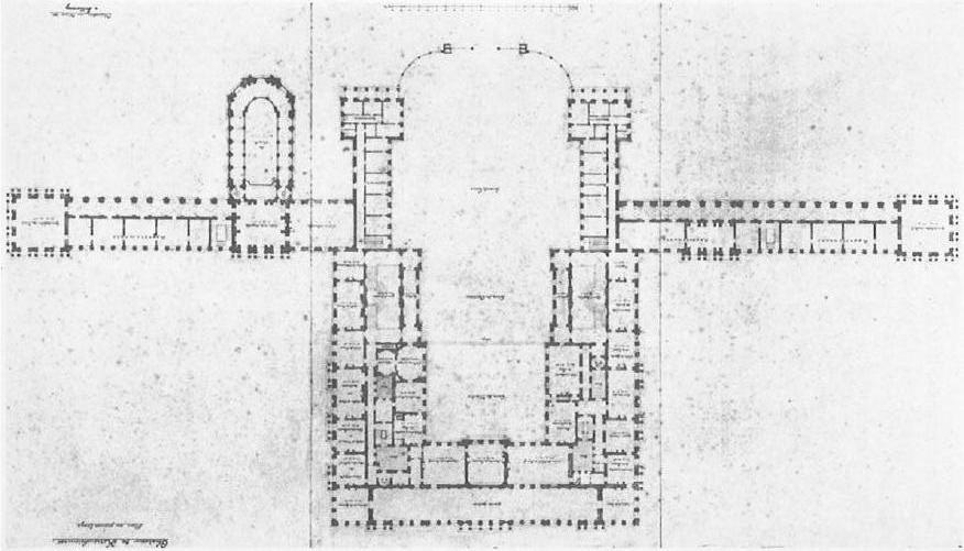 Groundplan of Herrenchiemsee Palace (unfinisehd)